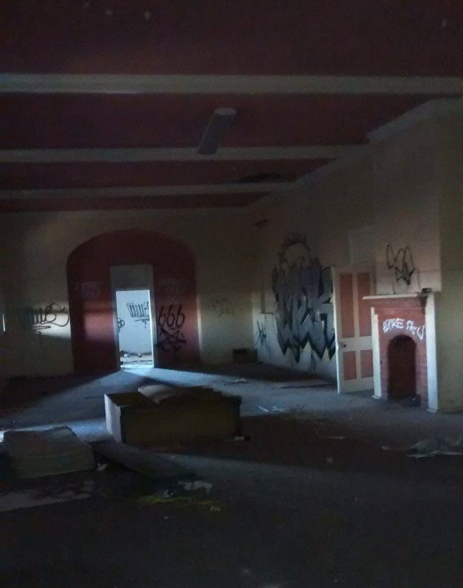 Room in St. John's Orphanage. Not the consistency of abandoned furniture and graffiti